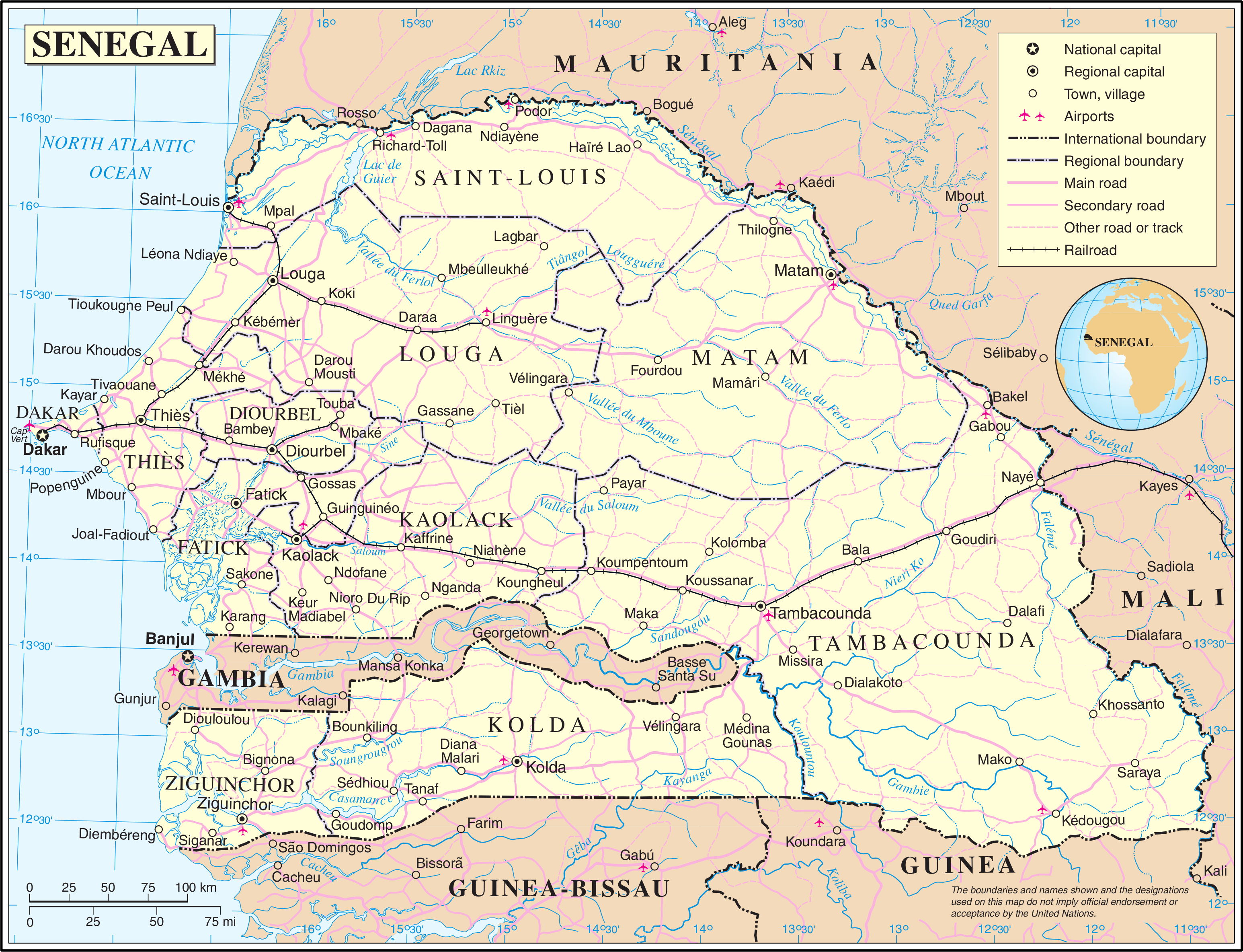 Administrative map of the 11 former regions of Senegal from 21 February 2002 to 10 september 2008, before the separation of the three new regions of Kédougou (from the region of Tambacounda), Sédhiou (from the region of Ziguinchor) and Kaffrine (from the region of Kaolack).